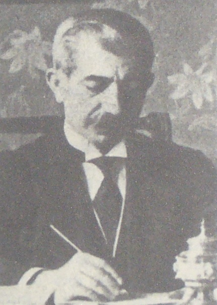 Jaume Boloix i Canela (Igualada, 1866 – Barcelona,1921) was a Catalan poet